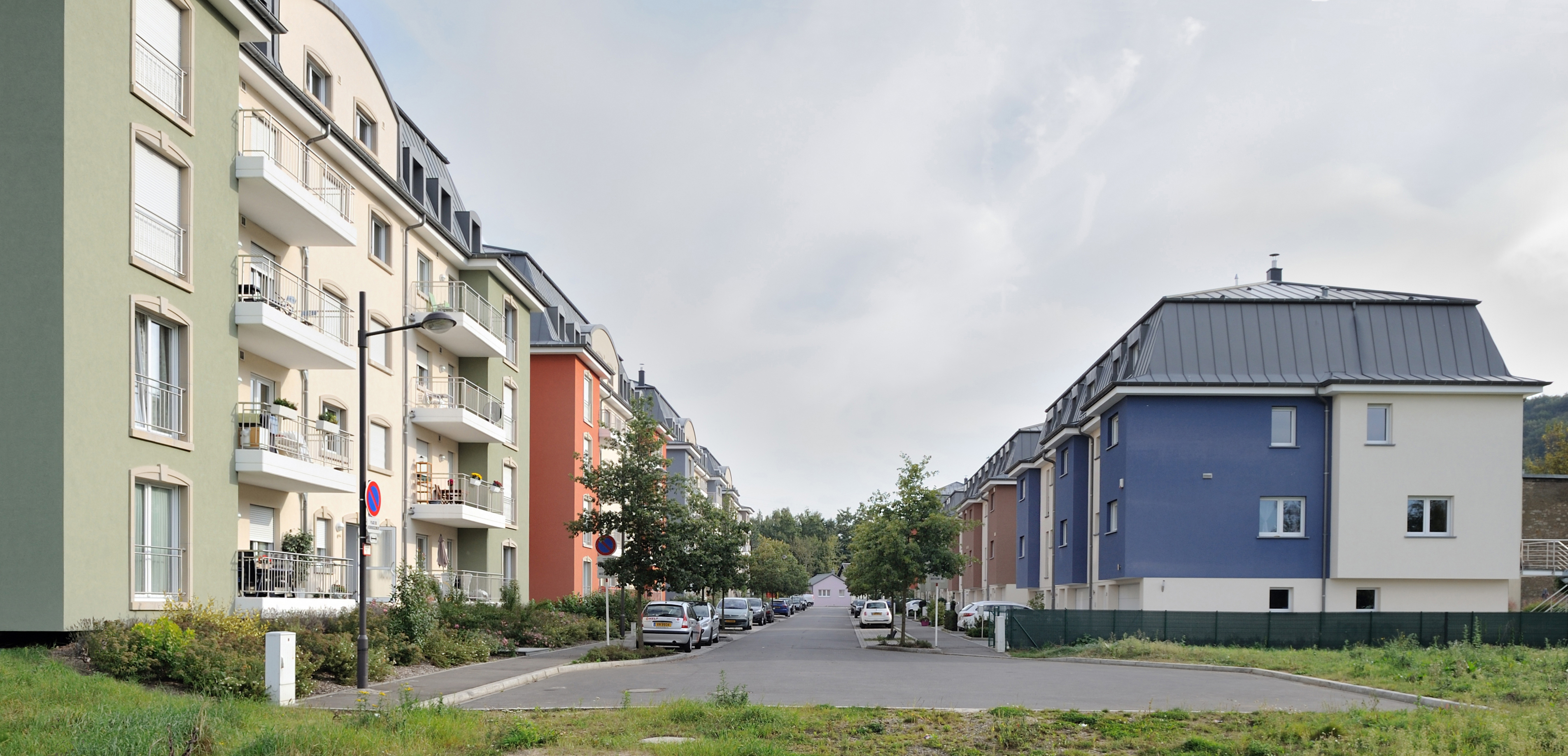 Luxembourgy City, quarter of Beggen: rue Pierre-Joseph Redouté.